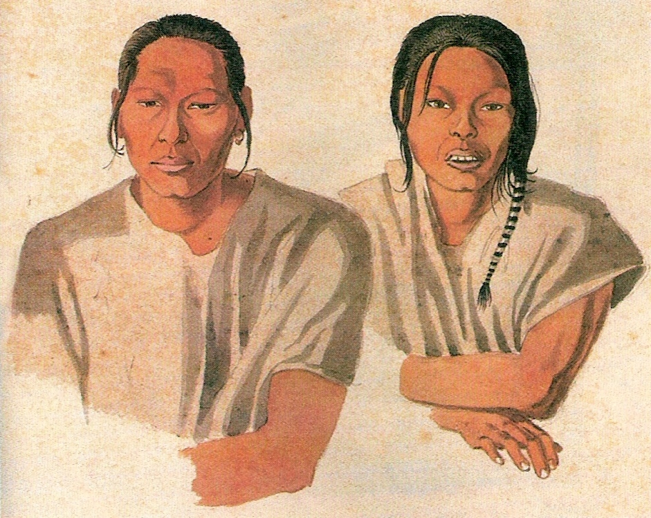 Guaná indians (detail of work), in Brazil.